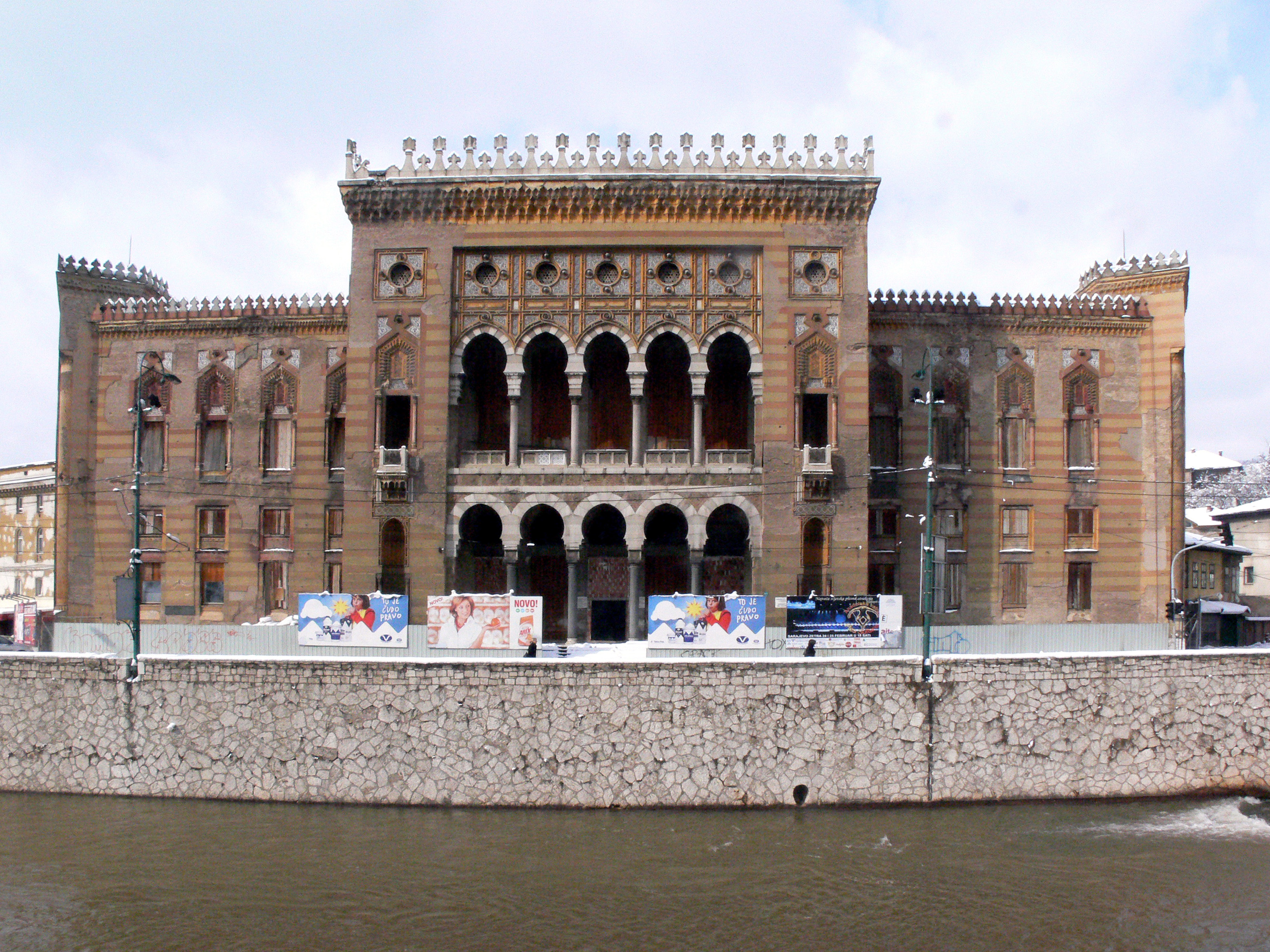 Sarajevo, old town hall, later library, now ruin.